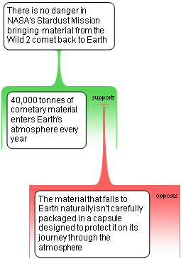 Created by Benedict Spearritt using the argument mapping software Rationale.